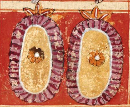 garlands of 14 auspicious dreams in Jainism